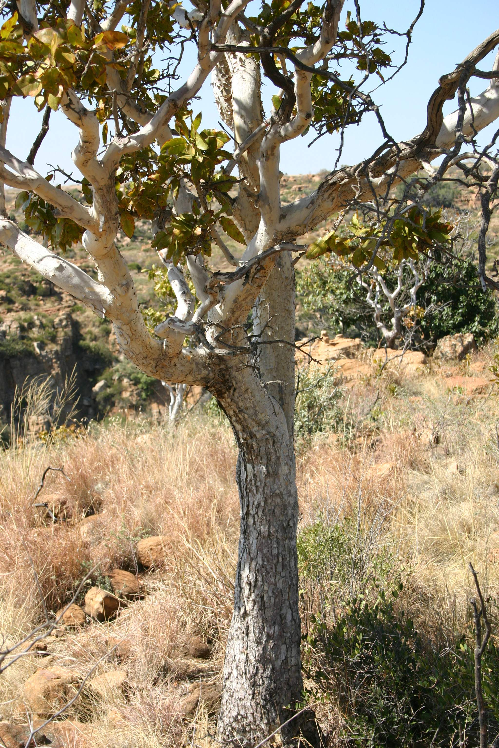 Ochna pulchra trunk, Magaliesberg, South Africa